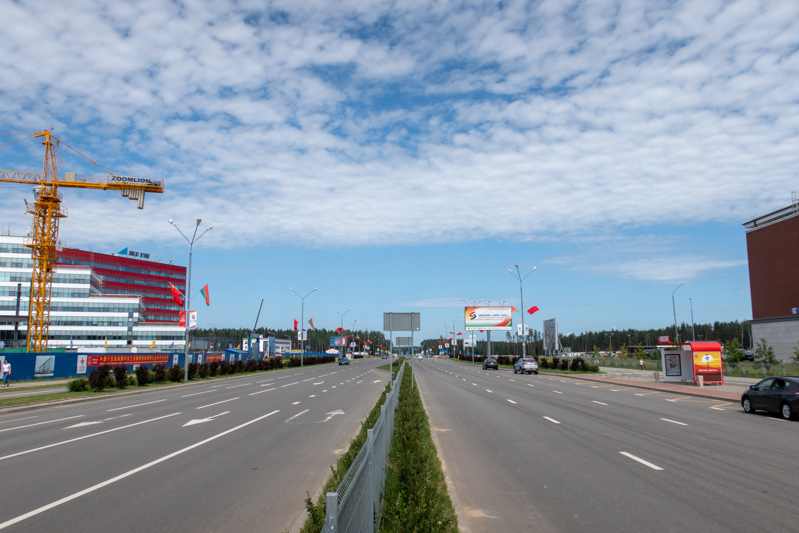 "Great Stone" industrial park (Belarus). Beijing avenue